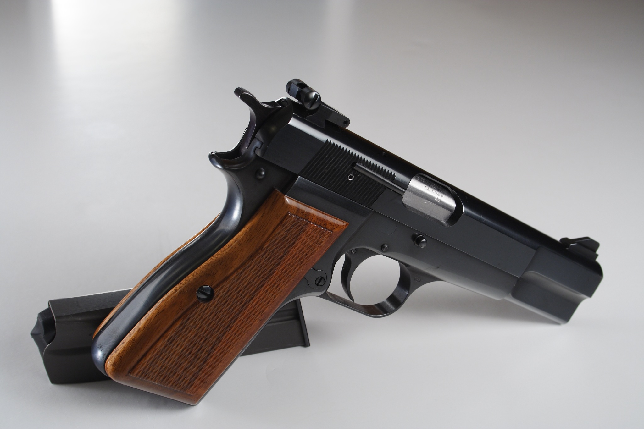 1971 Browning Hi Power 3